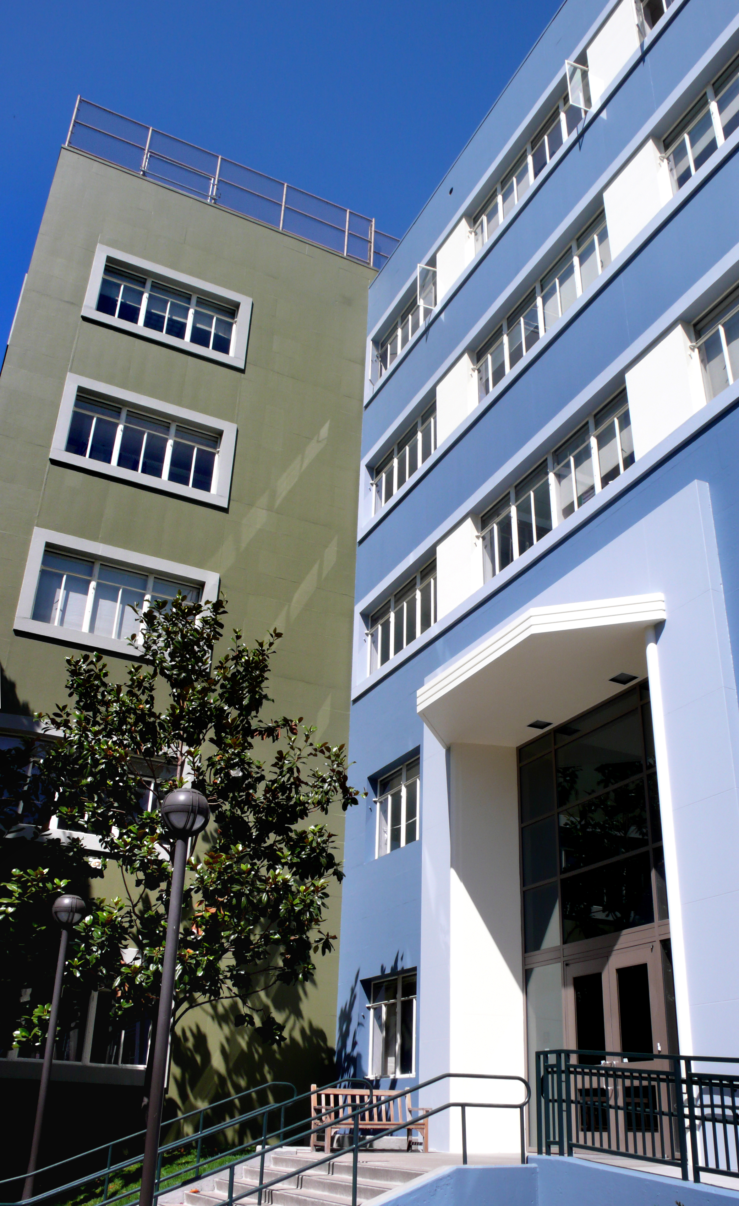 Photo of the French American International School and International High School main building on Oak street in San Francisco